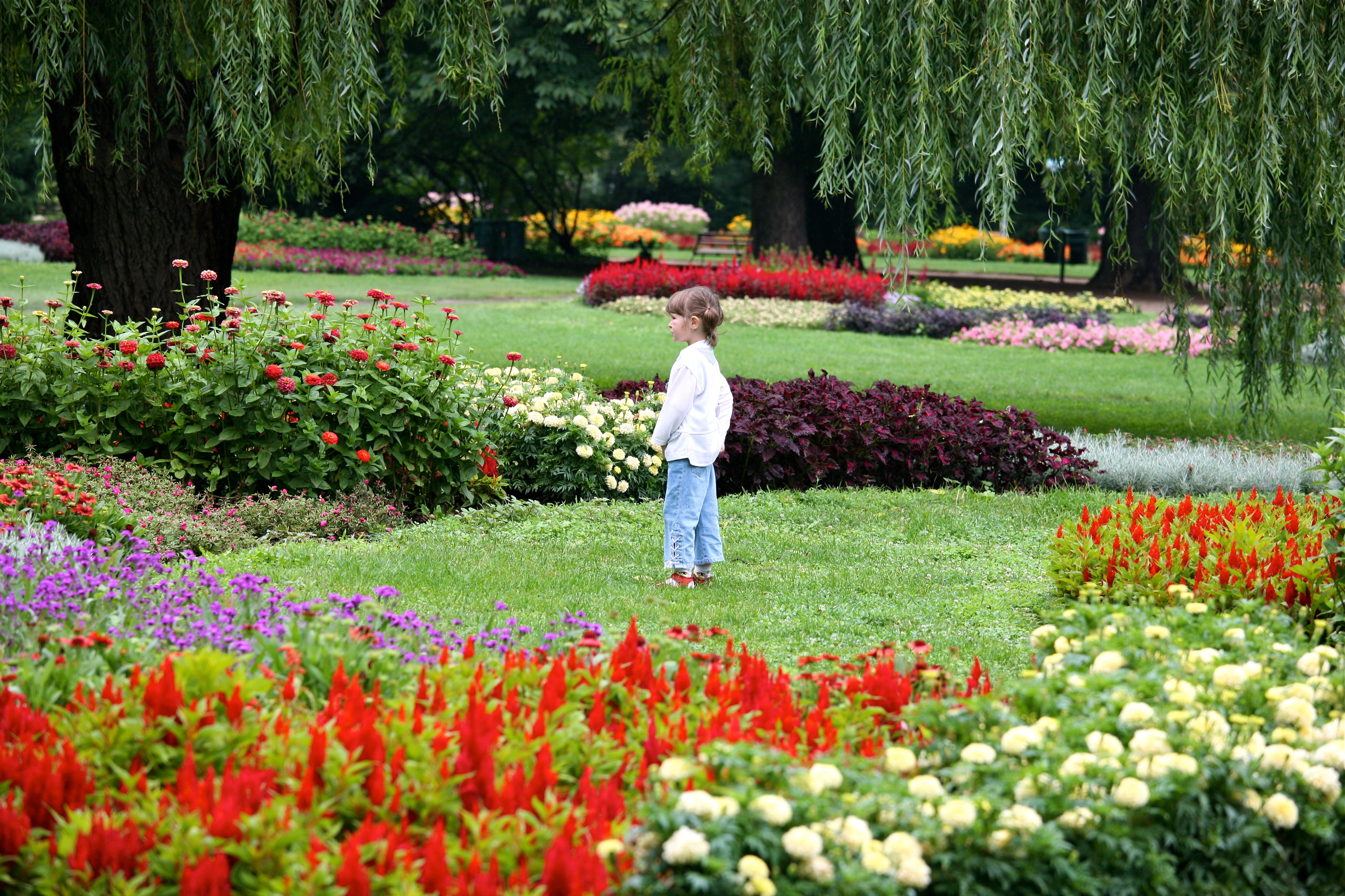 Margaret Island (Hungarian: Margit-sziget) is a 2.5 km long island, 500 metres wide, in the middle of the Danube in central Budapest, Hungary. It belongs administratively to the 13th district. The island is mostly covered by landscape parks, and is a popular recreational area. Its medieval ruins are reminders of its importance in the Middle Ages as a religious centre. The island spans the area between the Margaret Bridge (south) and the Árpád Bridge (north).